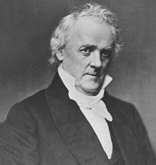 Smaller image of President James Buchanan.